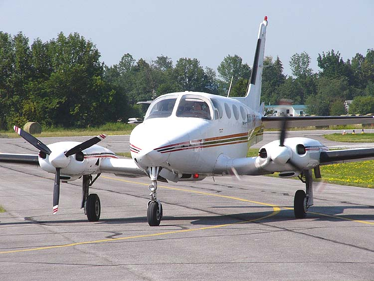 I took this photo of a Cessna 340 at Arnprior on 09 July 2006